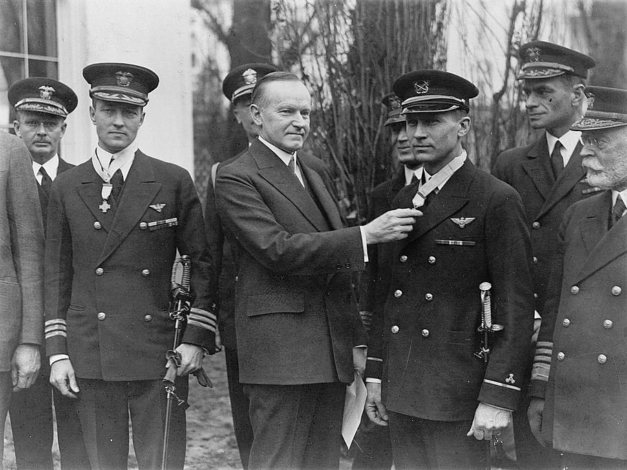 President Coolidge awarding medal to Floyd Bennett as Richard Byrd stands at left, looking on with others.